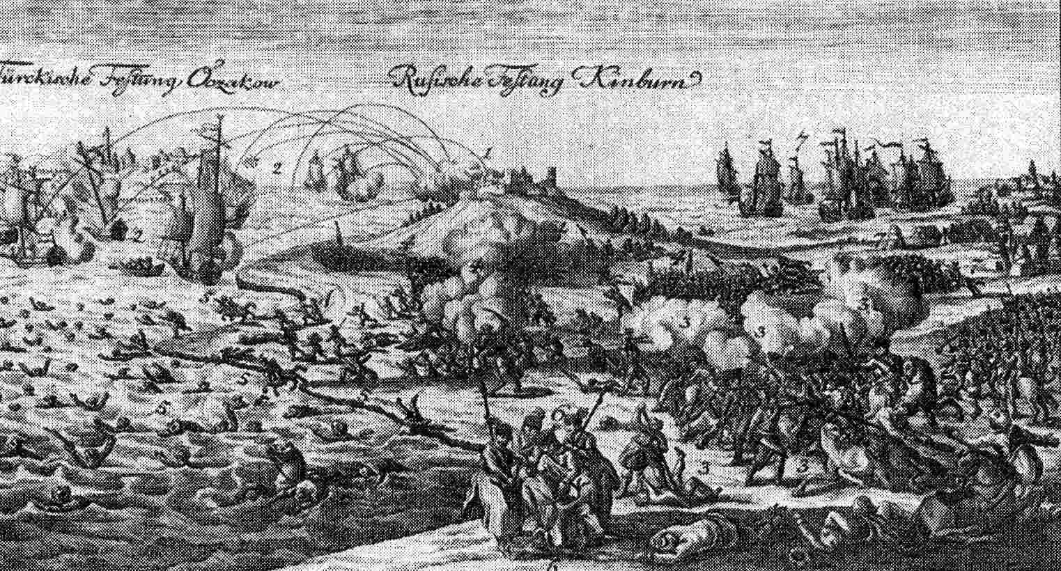 Kinburn battle of 1787